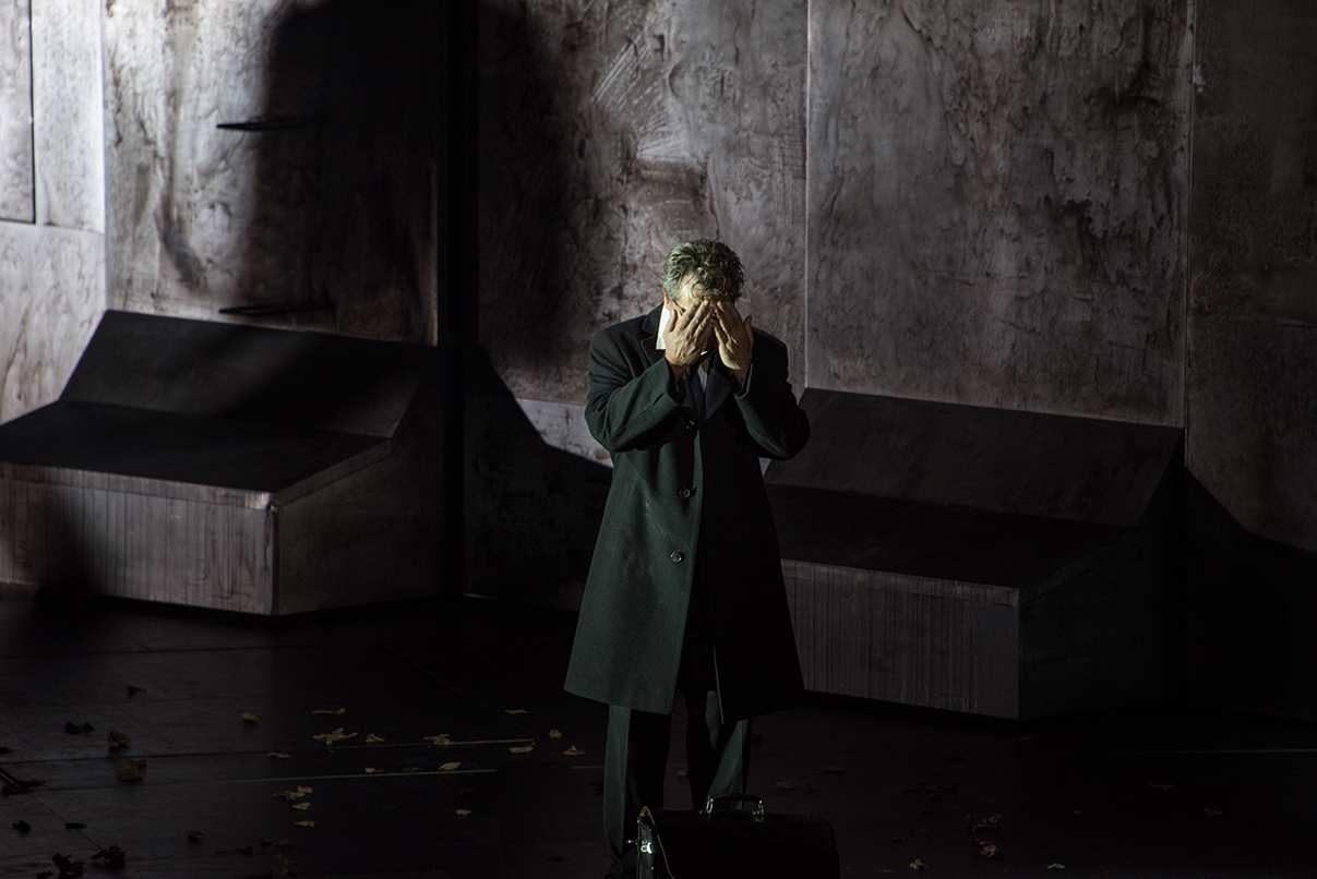 Opera "La Juive" by Eugène Scribe and Jacques Fromental Halévy, new production at Bayerische Staatsoper (Bavarian State Opera) in Munich, June 2016, directed by Calixto Bieito, sets by Rebecca Ringst, costumes by Ingo Krügler, video design by Sarah Derendinger, light design by Michael Bauer, conducted by Bertrand de Billy - this scene with Roberto Alagna in the role of Eléazar